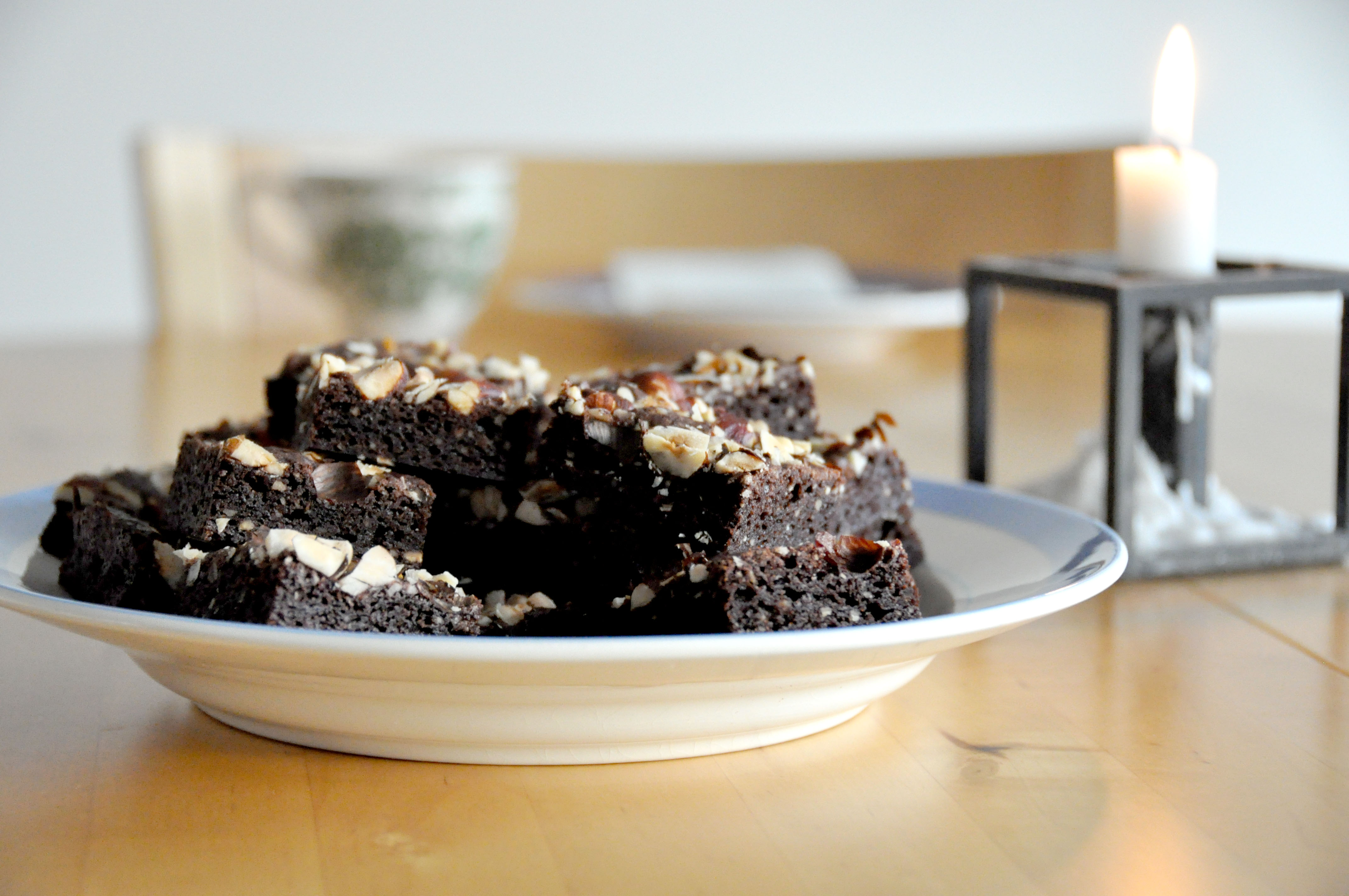 Chocolate cake with hazelnuts